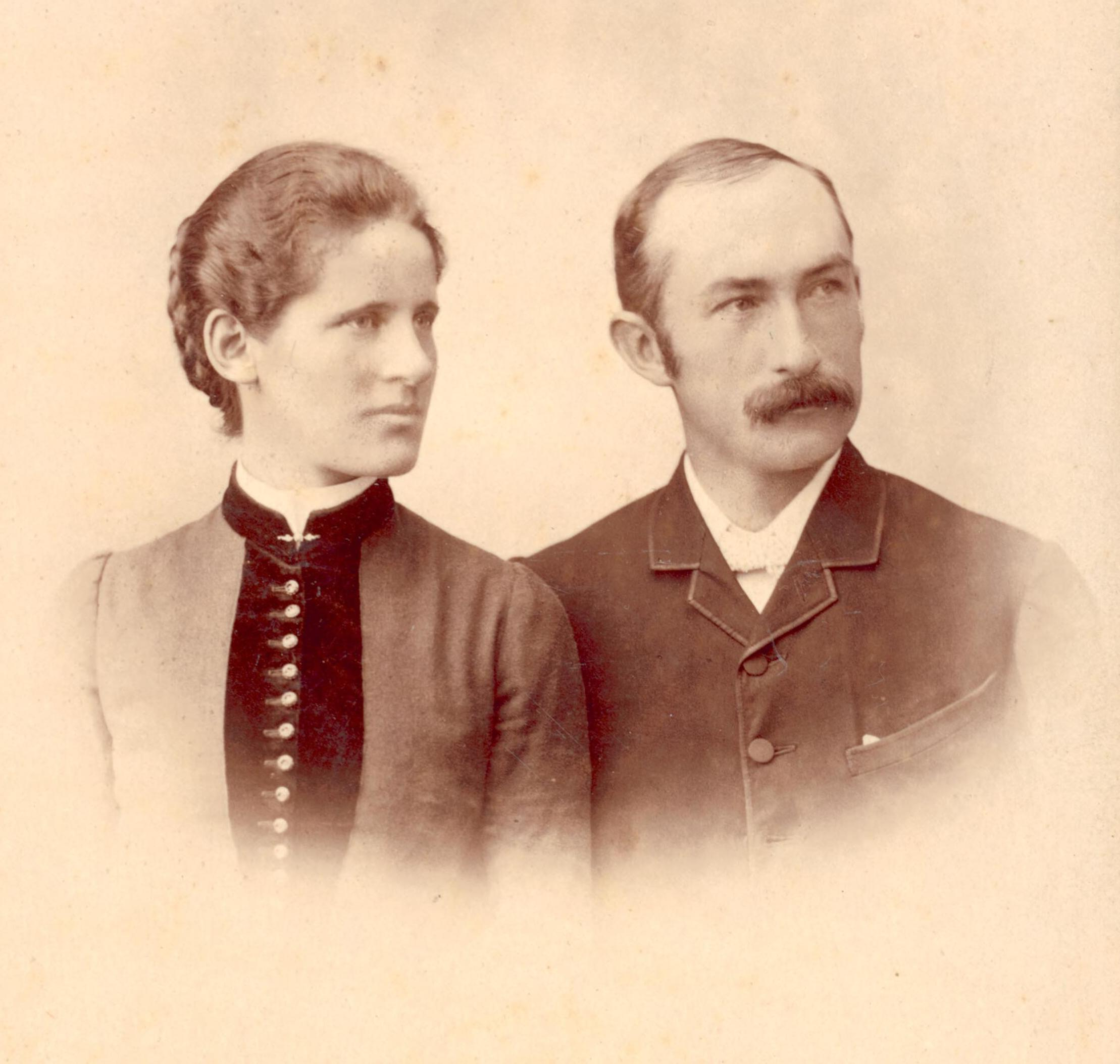 Henry Bournes Higgins, Australian judge and politician